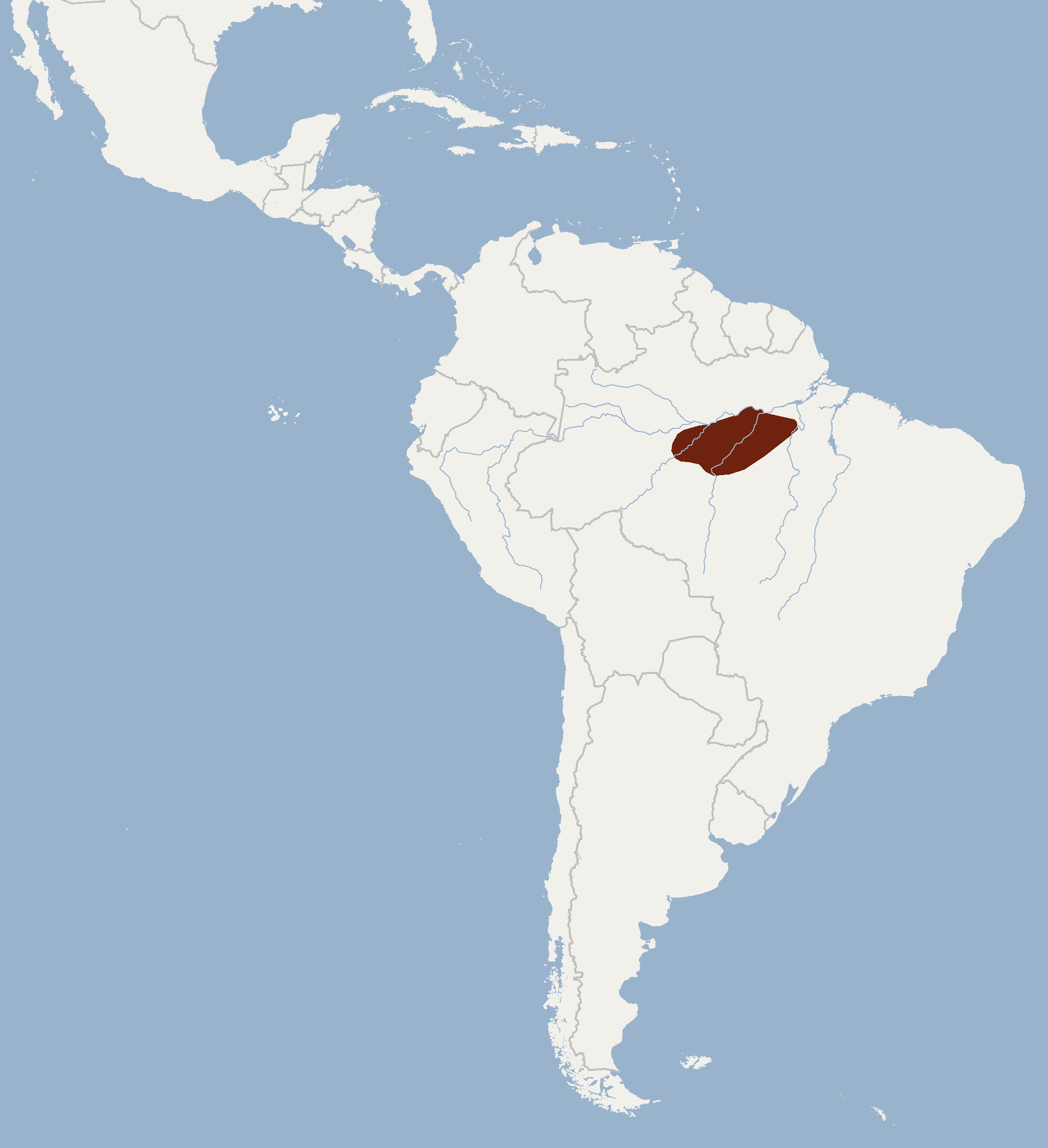 According to Patton & al. 2015